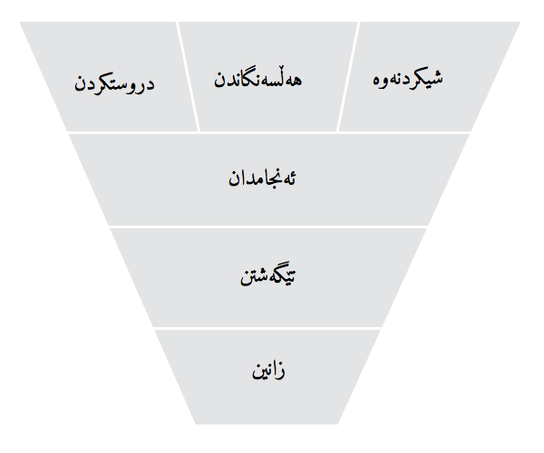 This figure in Kurdish Sorani illustrates the cognitive process dimension of the revised version of Bloom's taxonomy in the cognitive domain (Anderson & Krathwohl, 2001). It depicts the belief that remembering is a prerequisite for understanding and that understanding is a prerequisite for application. Anderson, L. W., & Krathwohl, D. R. (2001). A taxonomy for learning, teaching, and assessing: A revision of Bloom's taxonomy of educational objectives. New York, USA: Addison-Wesley Longman.